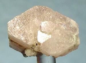 Zektzerite Locality: Washington Pass, Golden Horn Batholith, Okanogan County, Washington, USA (Locality at ) Size: 1.3 x 0.9 x 0.6 cm. Zektzerite is an ULTRA-RARE lithium, zirconium silicate and this very sharp, lustrous and translucent, tan crystal is large, at 1.3 cm. From the Type Locality at Washington Pass, Washington. Excellent material from the Carl Davis Collection.